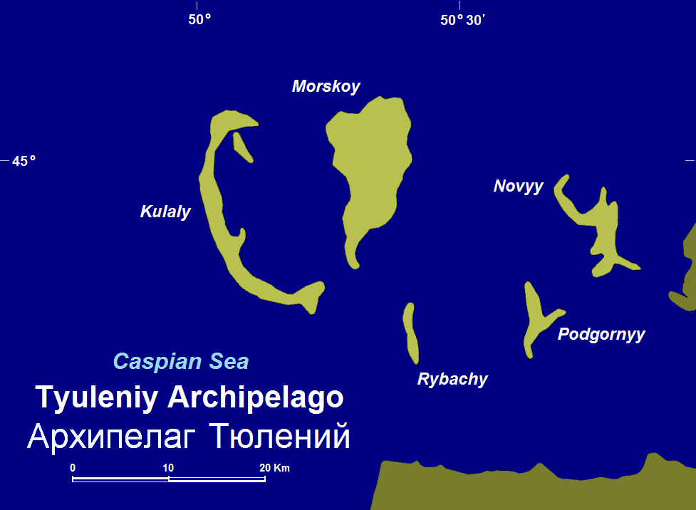 color map of island group